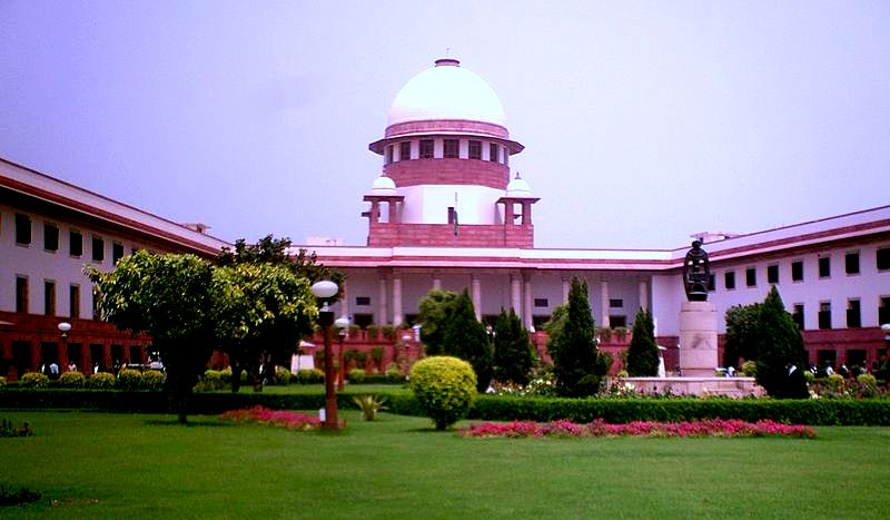 Image of Supreme Court of India